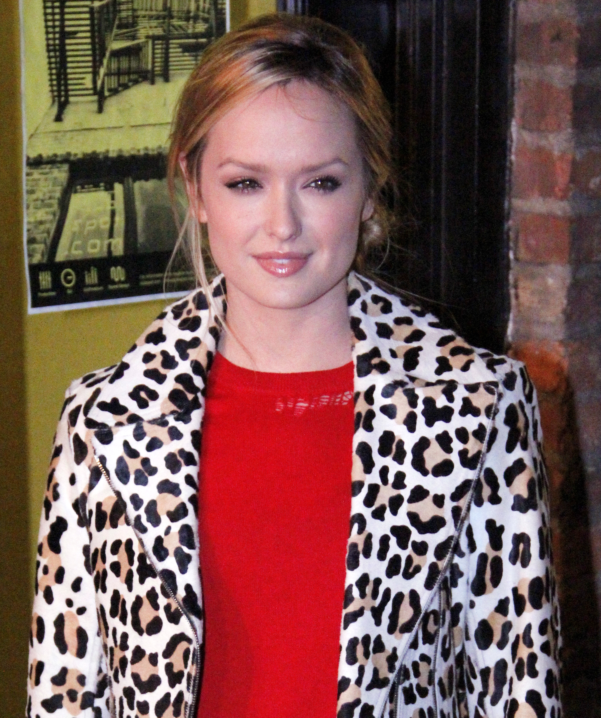 Kaylee DeFer at the Denim Habit Store Opening 2011.